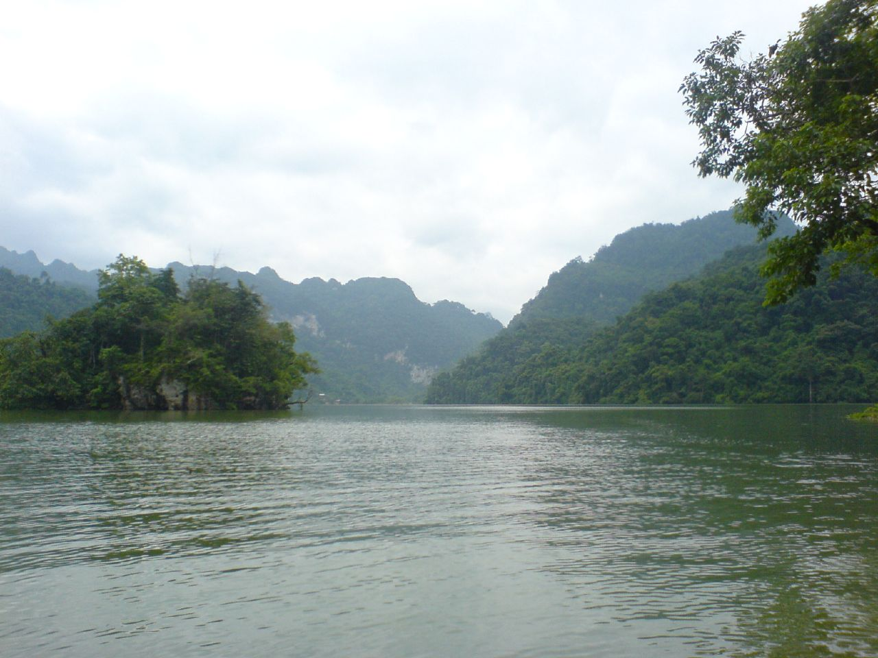 Ba Bể Lake